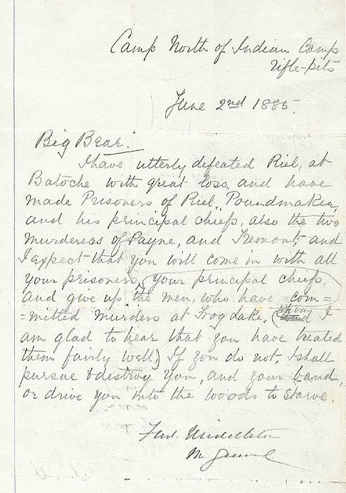 Note to Big Bear from General Sir Fred Middleton